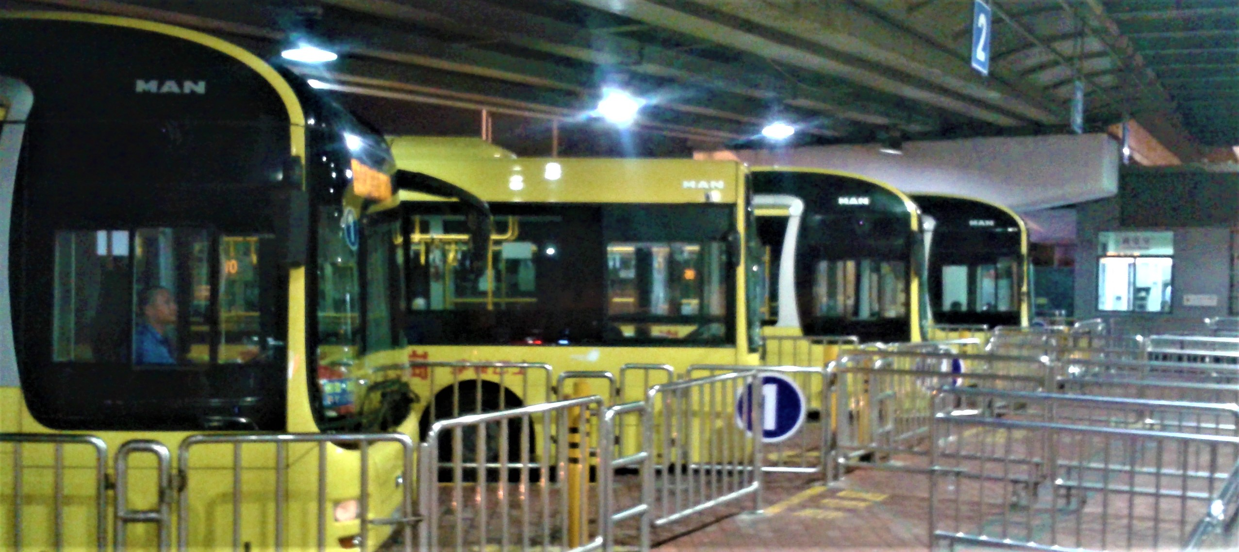 Cross-border shuttle buses at Huanggang Port in Shenzhen